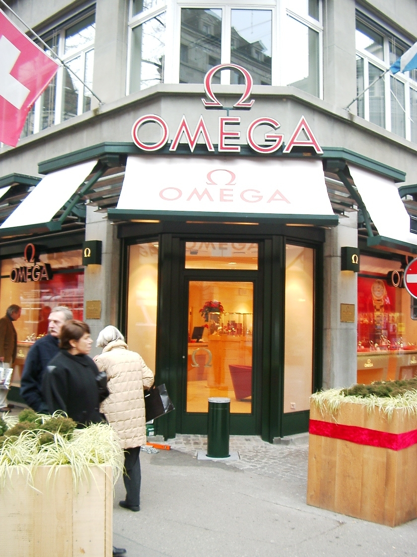 Security bollard infront of a shop doorway, to deter ram raiders.